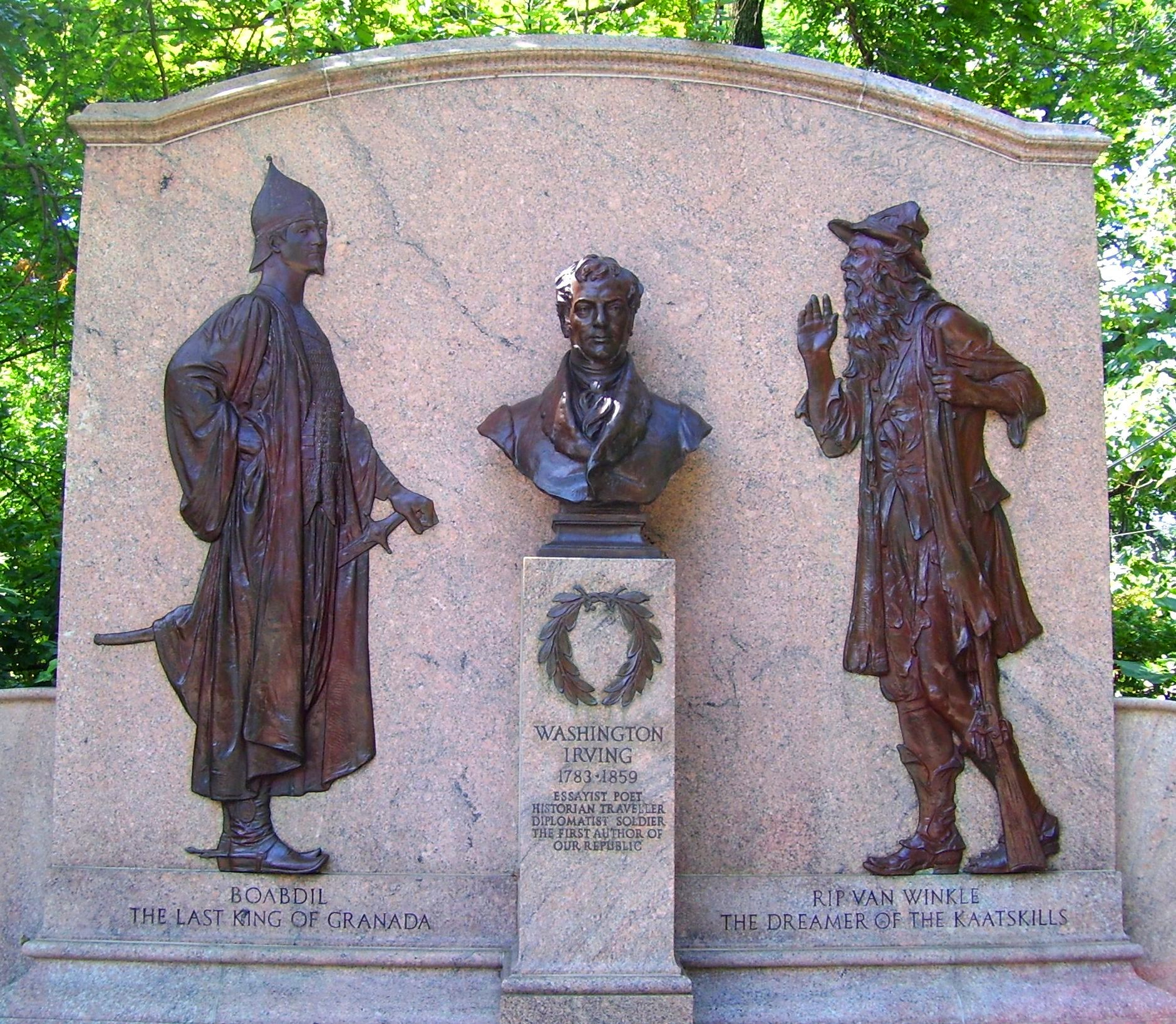 The Washington Irving Memorial at the intersection of West Sunnyside Lane and North Broadway in Irvington, New York is listed on the National Register of Historic Places.